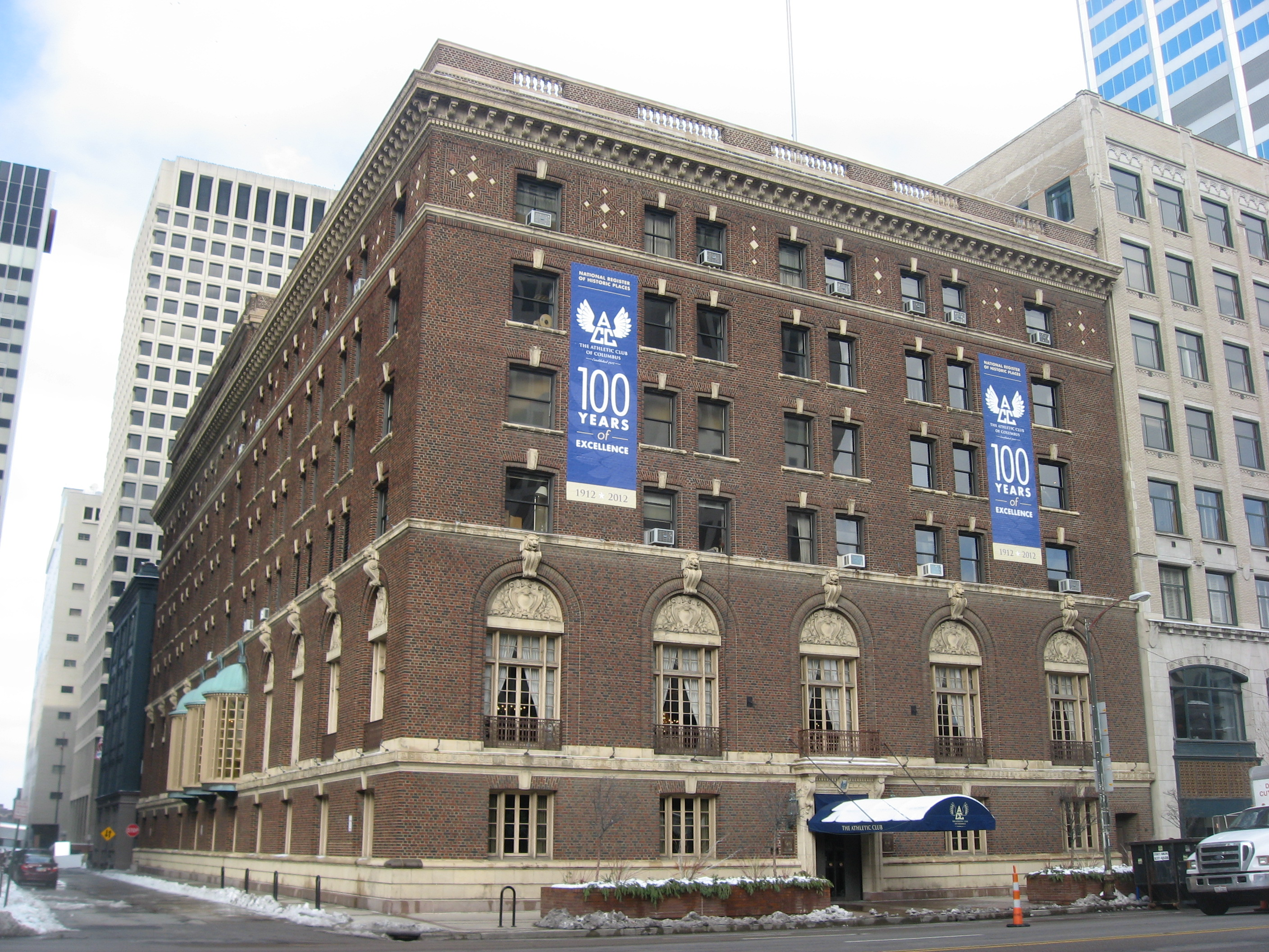 Front and western side of the Athletic Club of Columbus, located at 136 E. Broad Street (U.S. Routes 40/62) in downtown Columbus, Ohio, United States. Built in 1934, it is listed on the National Register of Historic Places.